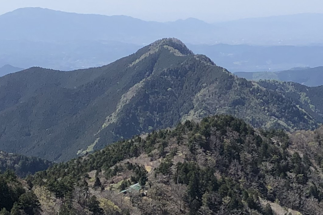 Otenjogatake (Mount Otenjo) seen from the SE.